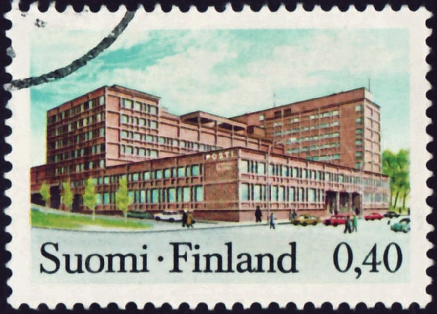 Stamp of Finland; 1973: definitive stamp of the issue "Buildings"; post office in Tampere; postmarked Stamp: Michel: No. 718x; Yvert & Tellier: No. 683; AFA: No. 725; Scott: No. 463 Color: Multicolored on normal paper (= type "x") Nominal value: 0.40 (Markkaa) Postage validity: from 2 April 1973 until 31 December 2011 Stamp picture size: 30.5 x 20.5 mm